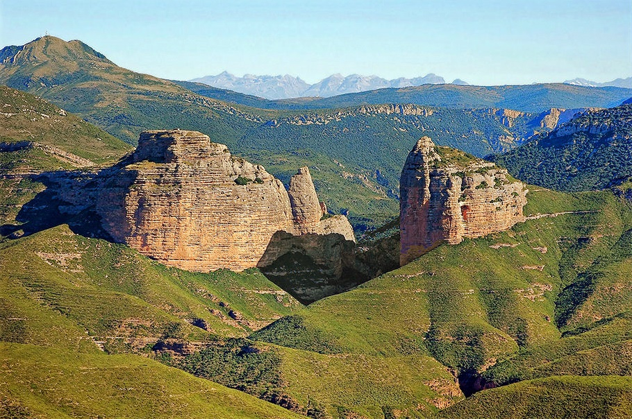 Vista panorámica del Salto de Roldán Panoramics of "El Salto de Roldán"